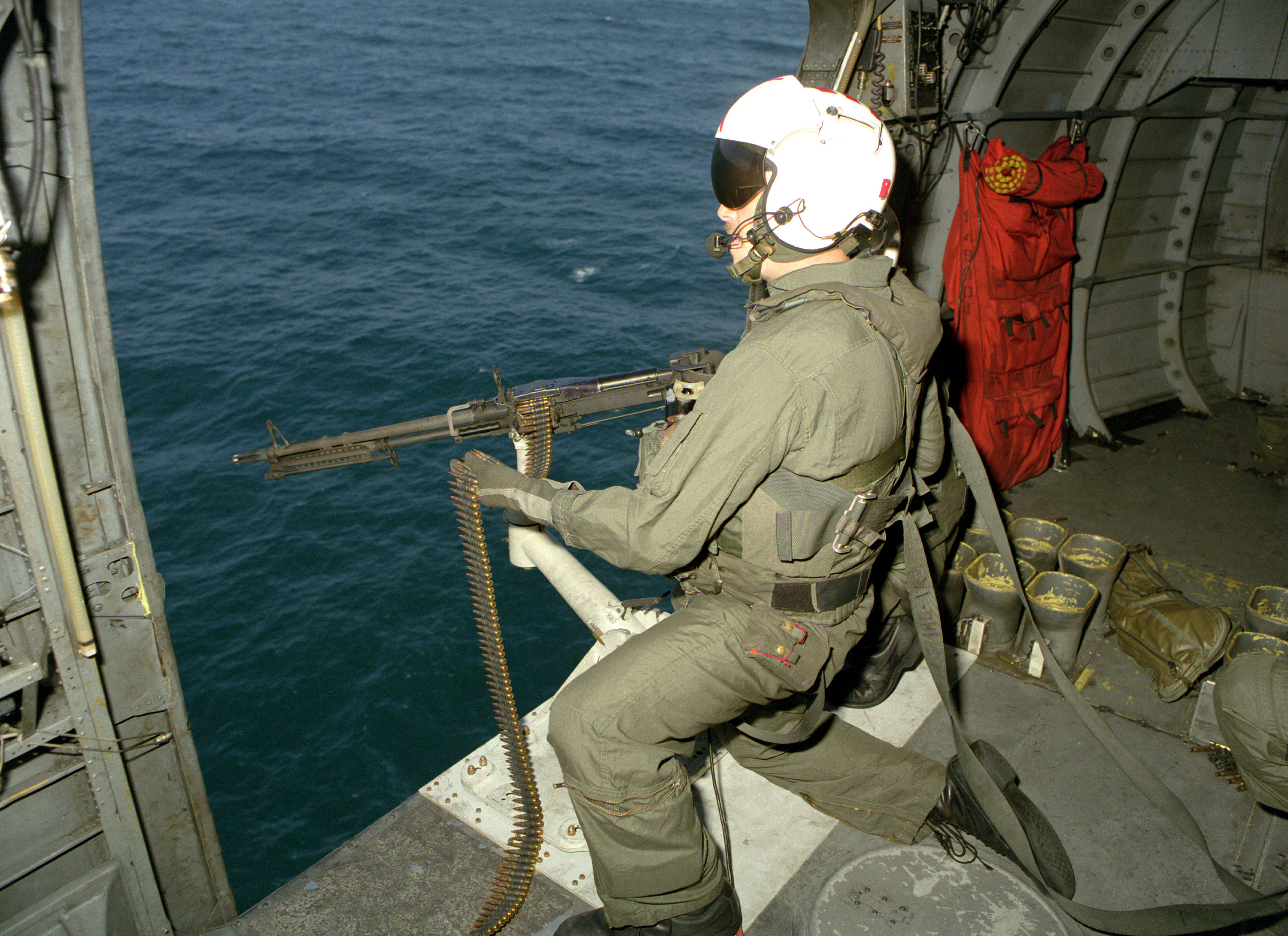 A U.S. Navy crew member aboard a Sikorsky SH-3H Sea King helicopter of Helicopter Anti-submarine Squadron HS-8 Eightballers prepares to fire a 7.62 mm M-60D machine gun during a training mission. HS-8 was assigned to Carrier Air Wing 14 (CVW-14) aboard the aircraft carrier USS Constellation (CV-64) for a deployment to the Western Pacific and the Indian Ocean from 1 December 1988 to 1 June 1989.